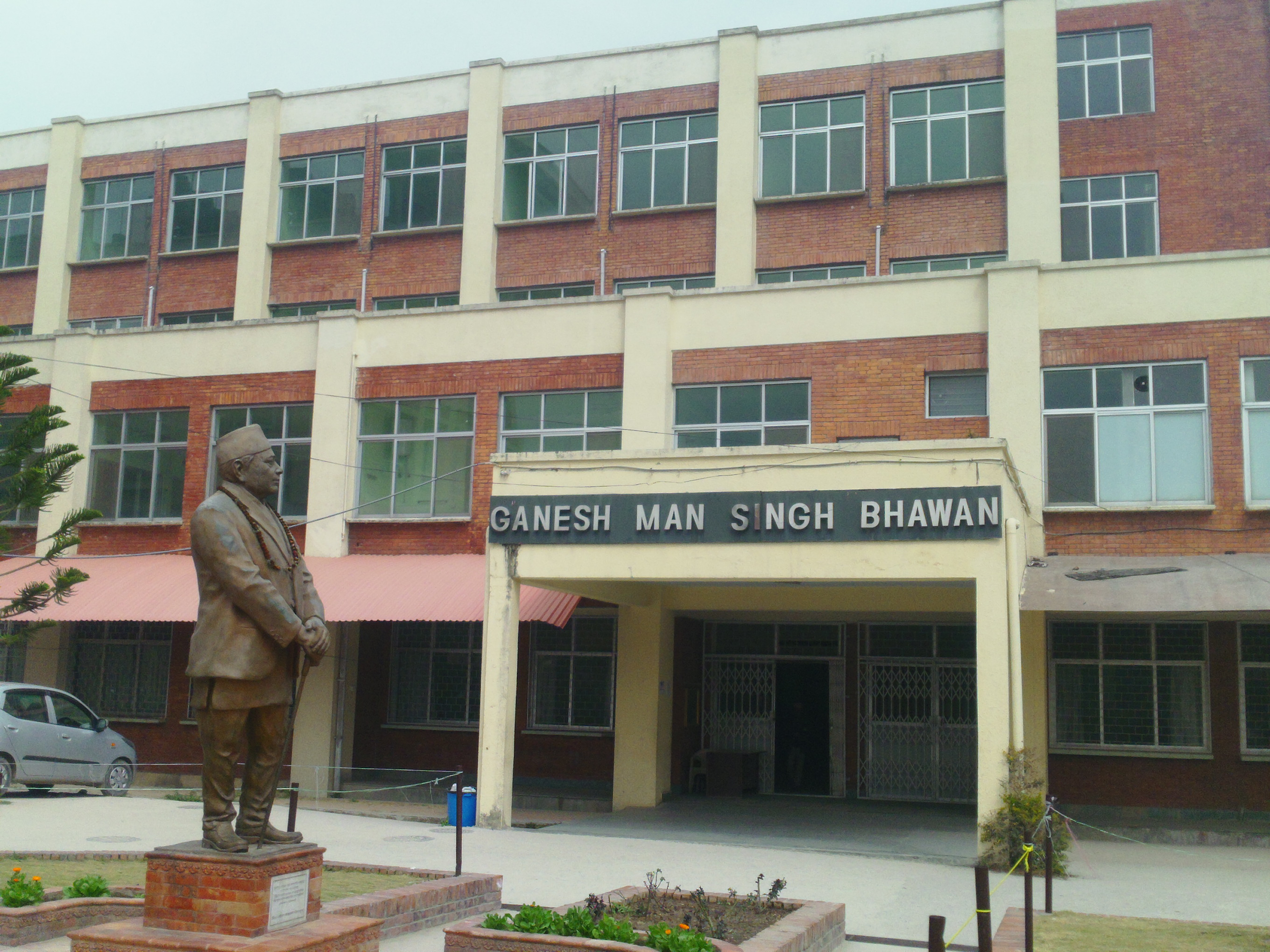 Ganesh Man Singh Building in TU Teaching Hospital, Kathmandu. The building contains ENT Department of the hospital, named as "Ganesh Man Singh Memorial Academy of ENT and Head Neck Studies".